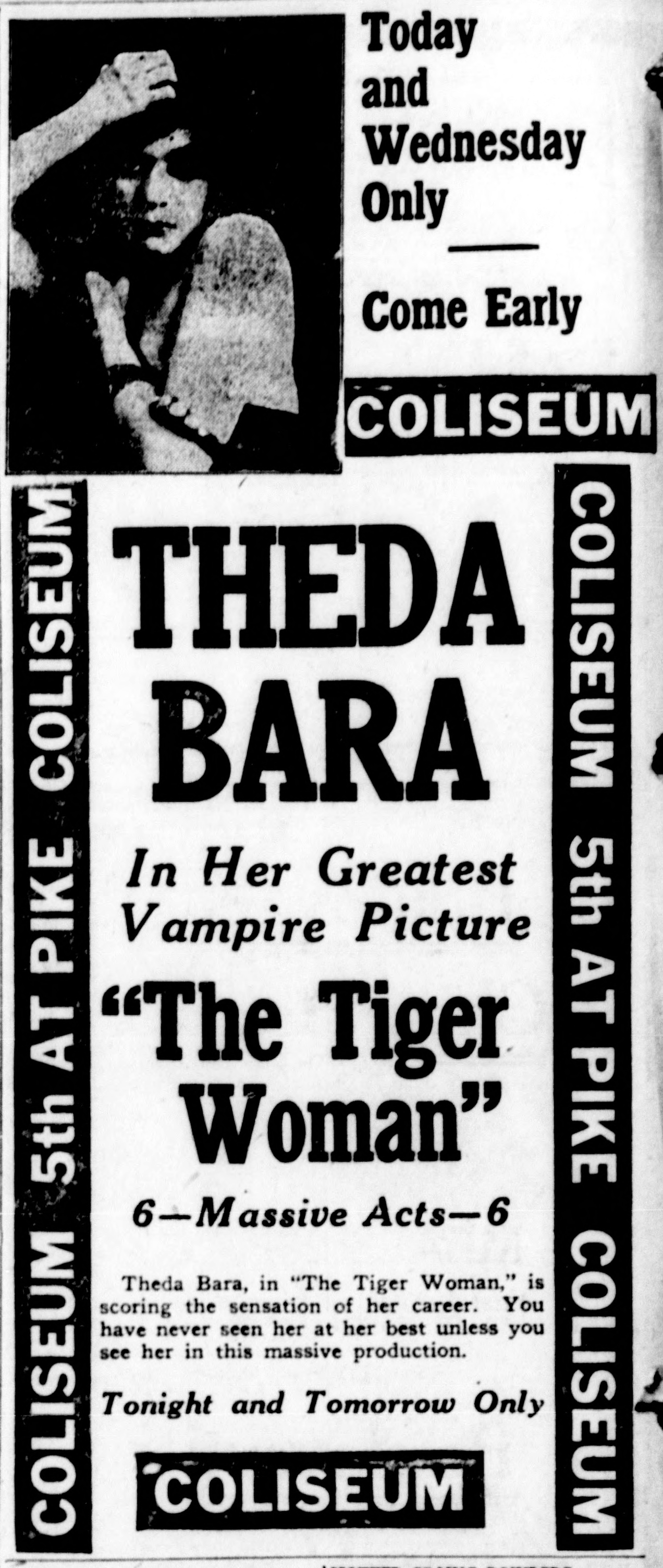 The Tiger Woman was a 1917 American silent drama film directed by J. Gordon Edwards and George Bellamy and starring Theda Bara. This is a newspaper advert for the film.